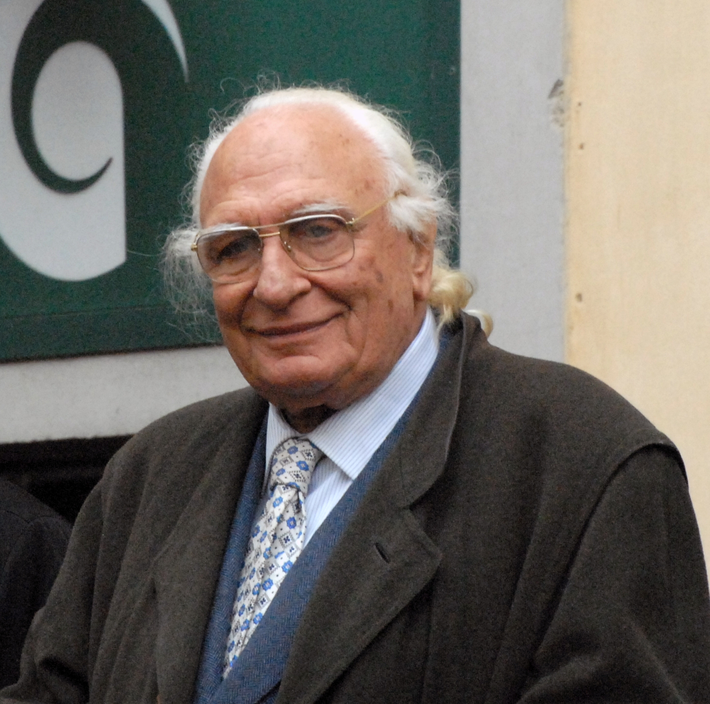 Marco Pannella, leader of the italian Partito Radicale, speaking in a meeting in Pistoia, Italy, 21 march 2010